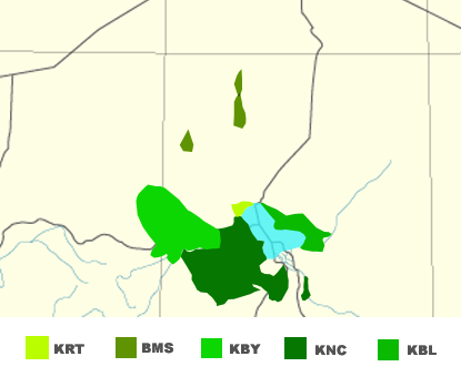 Map of the main languages of the Kanuri language group. Data from Ethnologue language descriptions of Manga Kanuri, Central (Yerwa) Kanuri, Tutari Kanuri, and Kanembu BMS Kanuri, Bilma KNC Kanuri, Central KNY Kanuri, Manga KRT Kanuri, Tumari KBL Kanembu Per